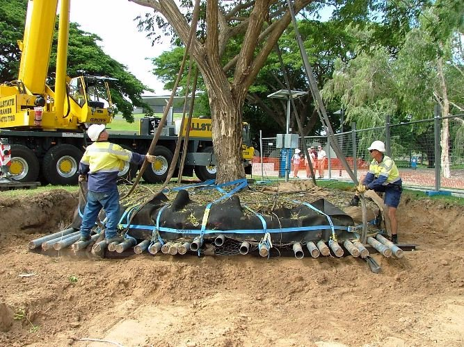 The transplanting of a mature tree